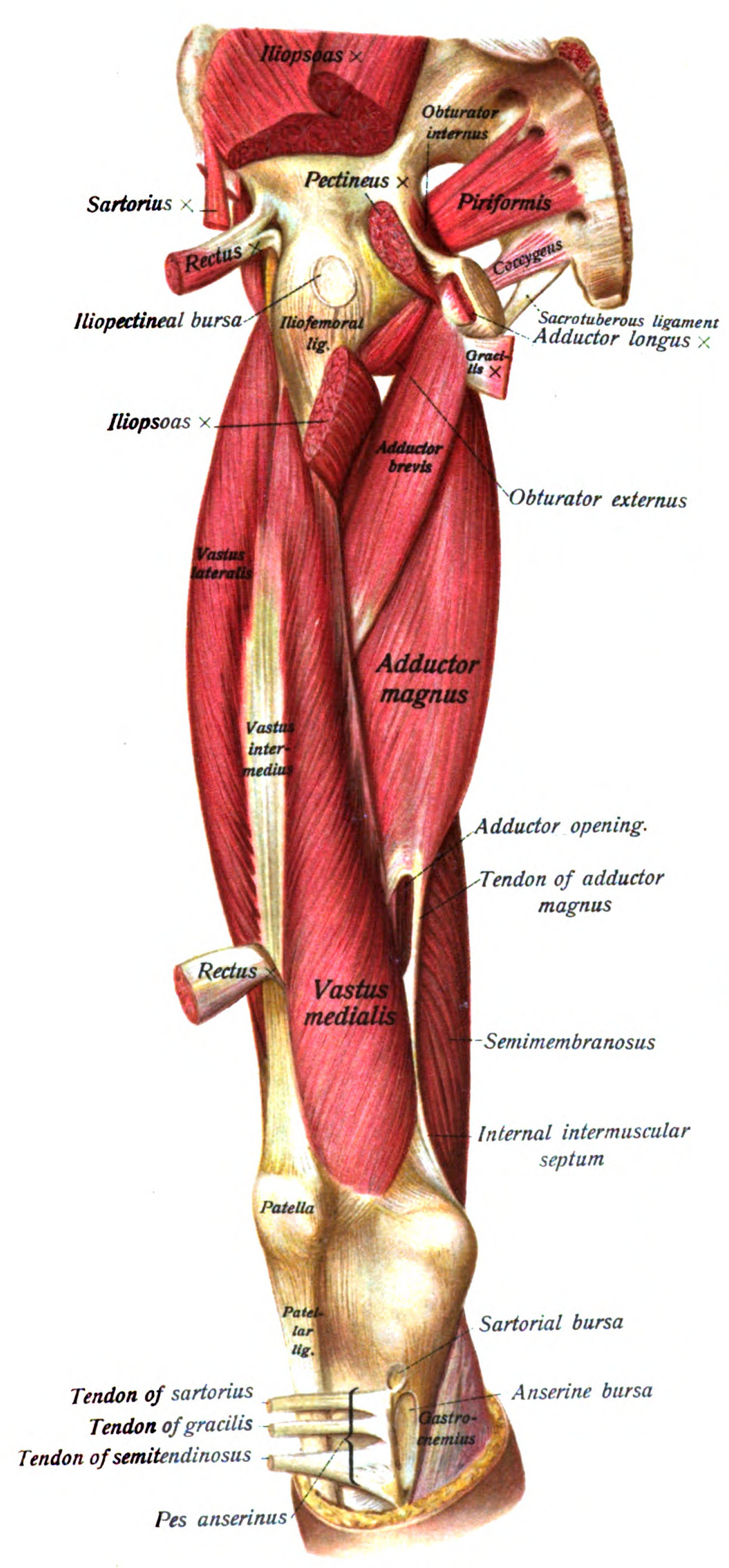 An anatomical illustration from the 1909 edition of Sobotta's Atlas and Text-book of Human Anatomy with English terminology.